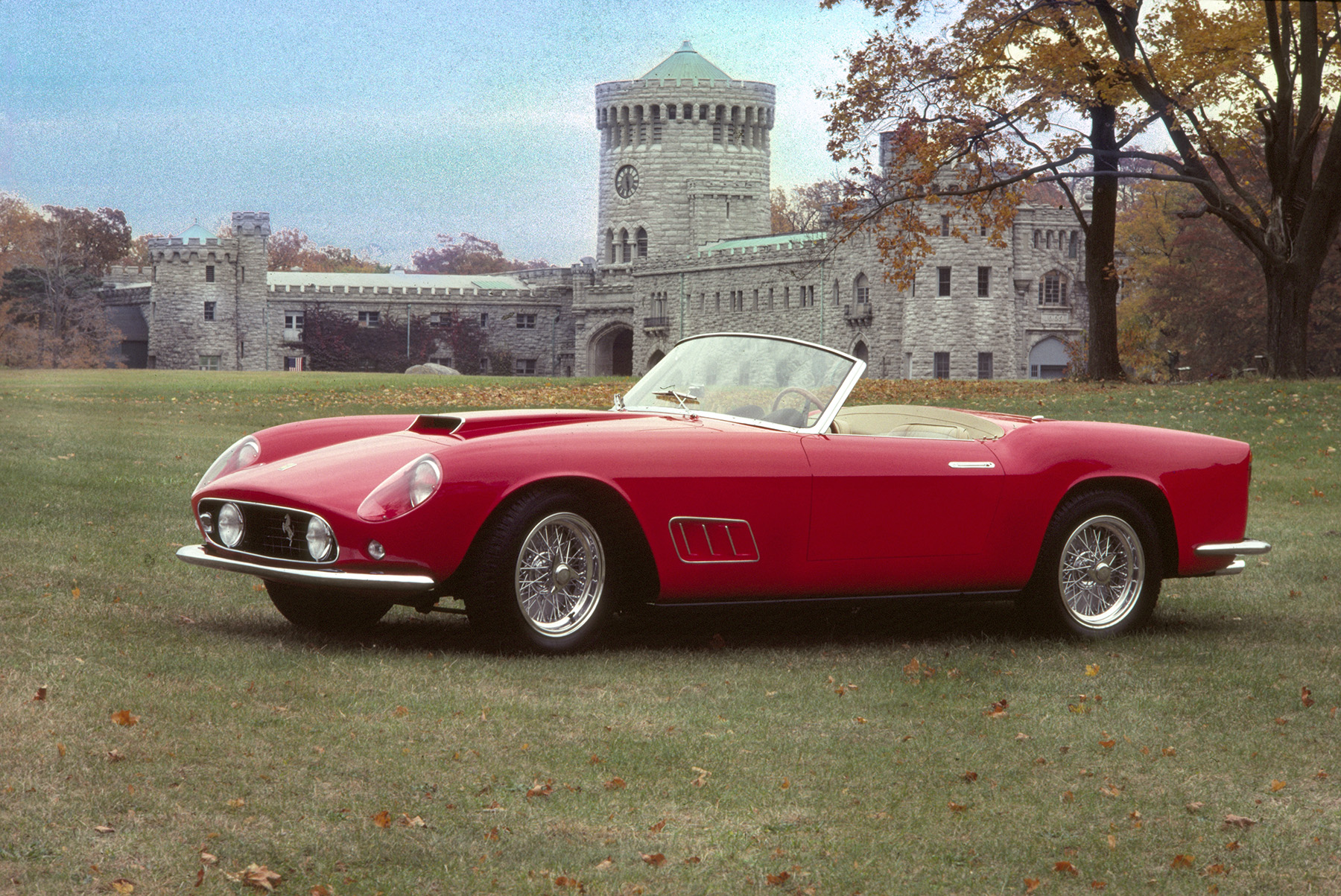 1959 Ferrari 250 LWB California Spyder. That this is 1379GT is mentioned on a sales page at Berlinetta Motors